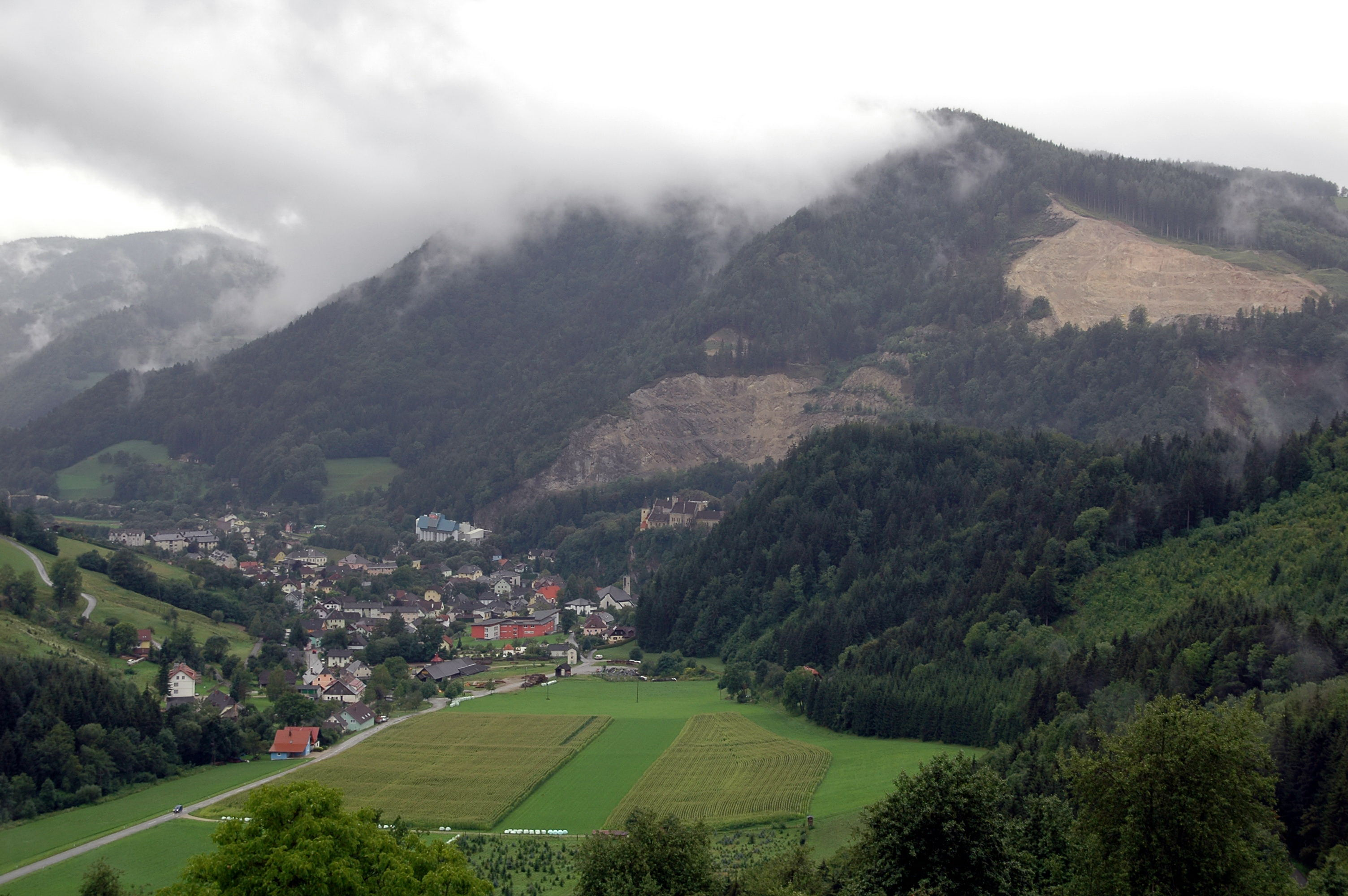 View of Eberstein with dolomite working, market town Eberstein, district Sankt Veit, Carinthia, Austria, EU